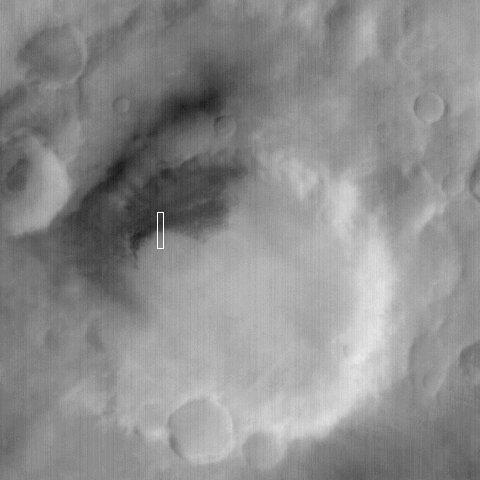 MGS context image for dunes in Brashear Crater. Location is near to 54 S and 118 W.